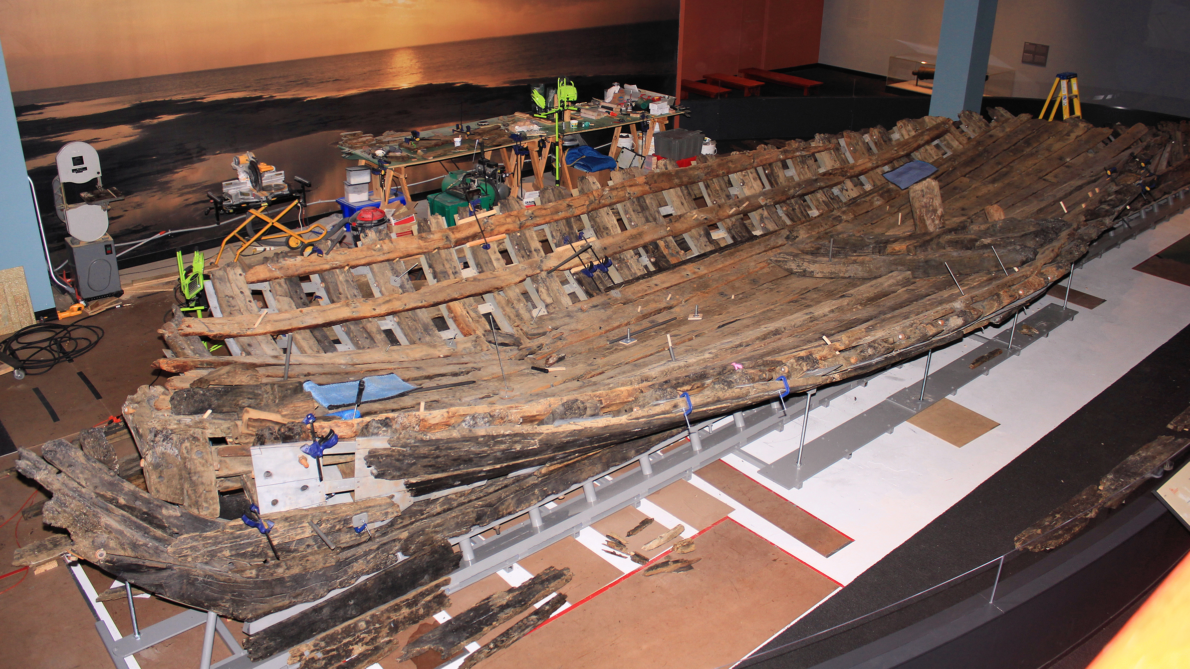 The ongoing reconstruction of the French ship La Belle at the Bullock Texas State History Museum in Austin, Texas, United States.